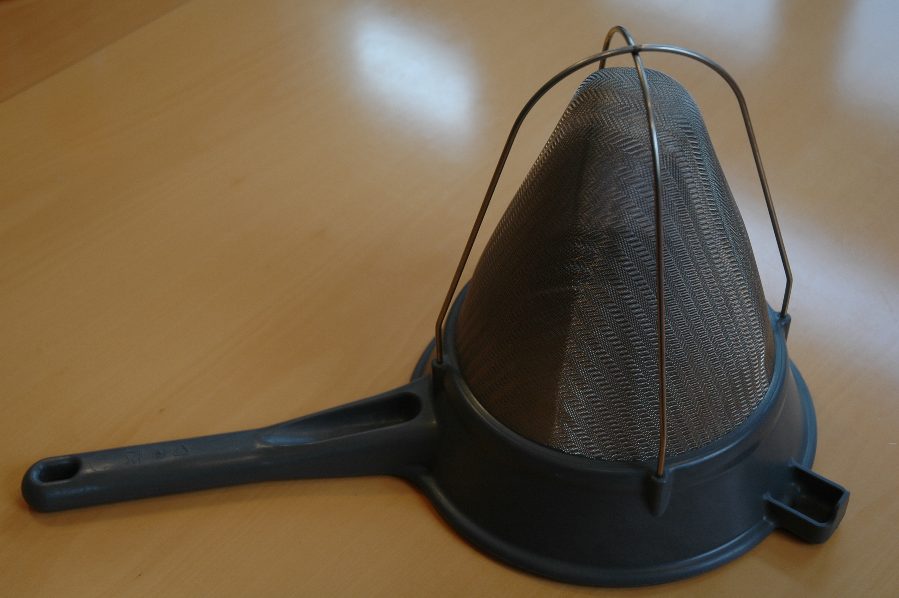 A medium chinois.